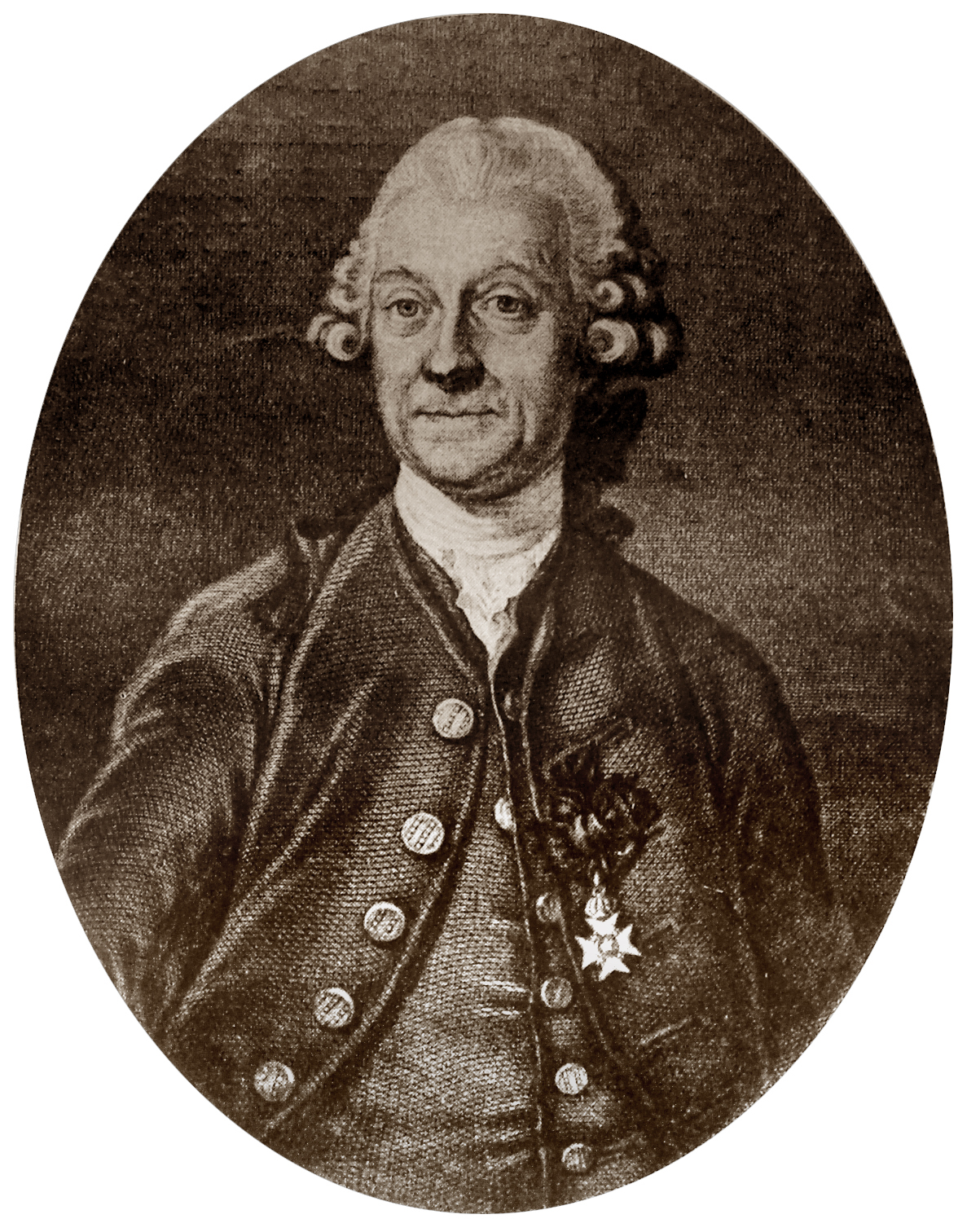 Pehr Wargentin, Uppsala Universitet . Photocopy.